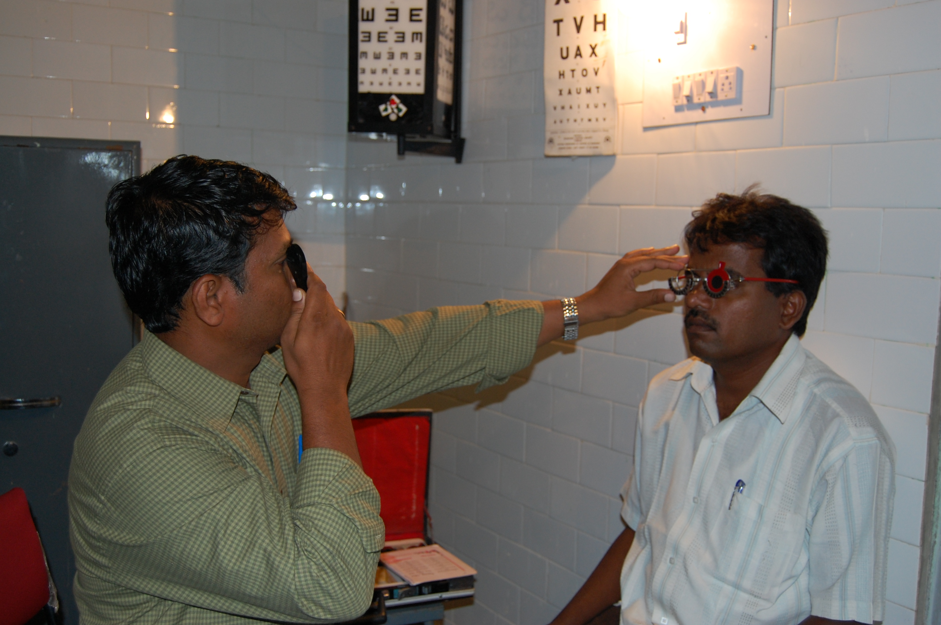 Photo of testing for refractive errors. In this photo, the man on the left is using a retinoscope and the subject (on the right) is wearing a Phoropter